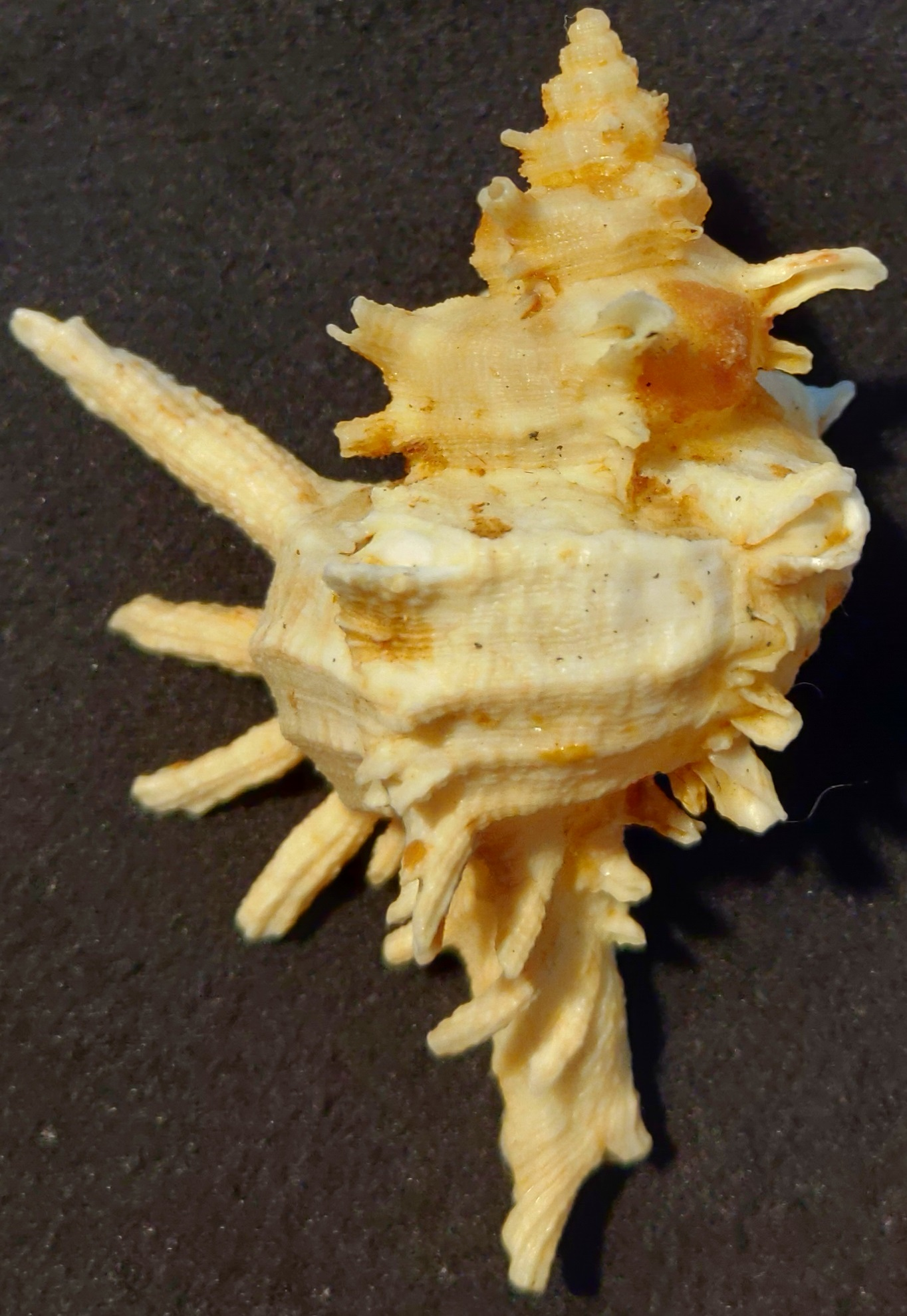 Hexaplex Saharicus Back